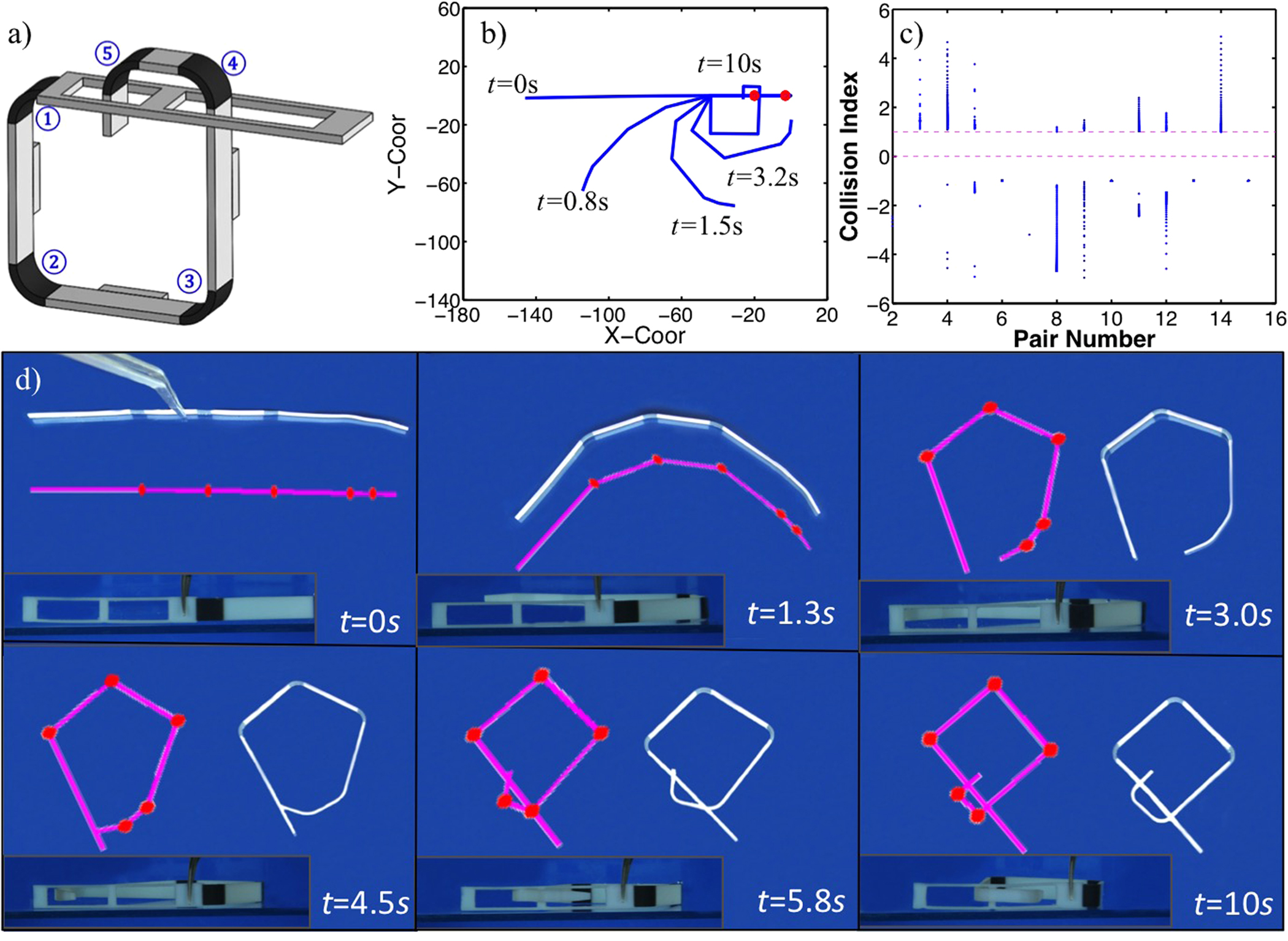 Schematic graph of the interlocking smp component